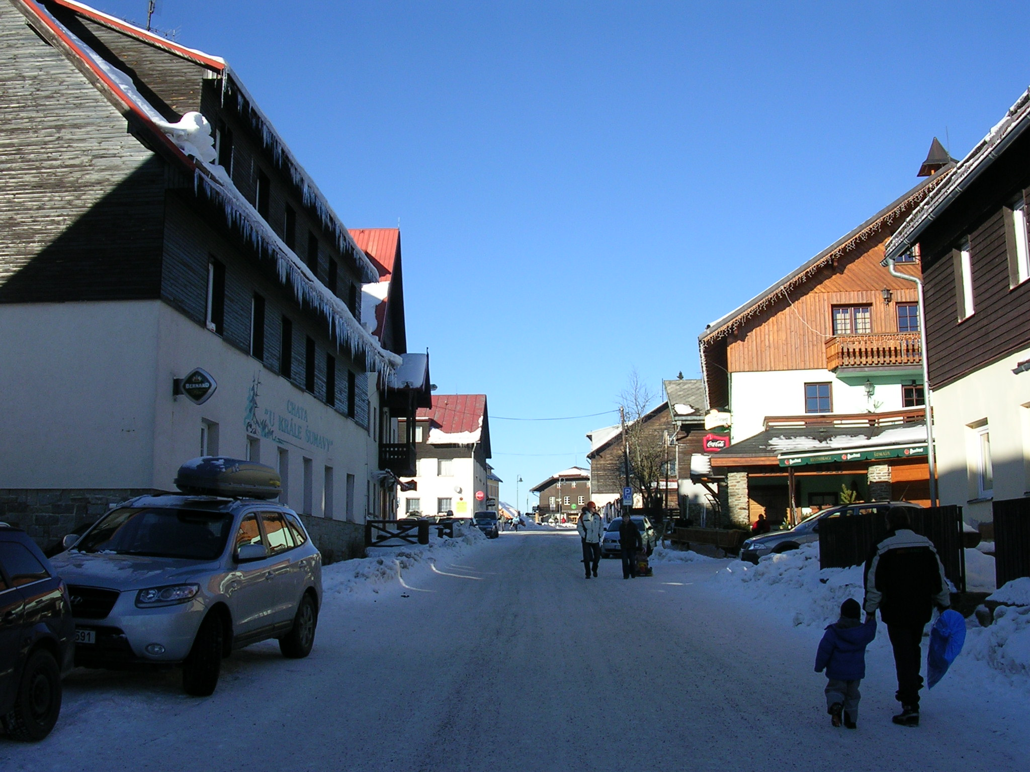 Kvilda, the Czech Republic.